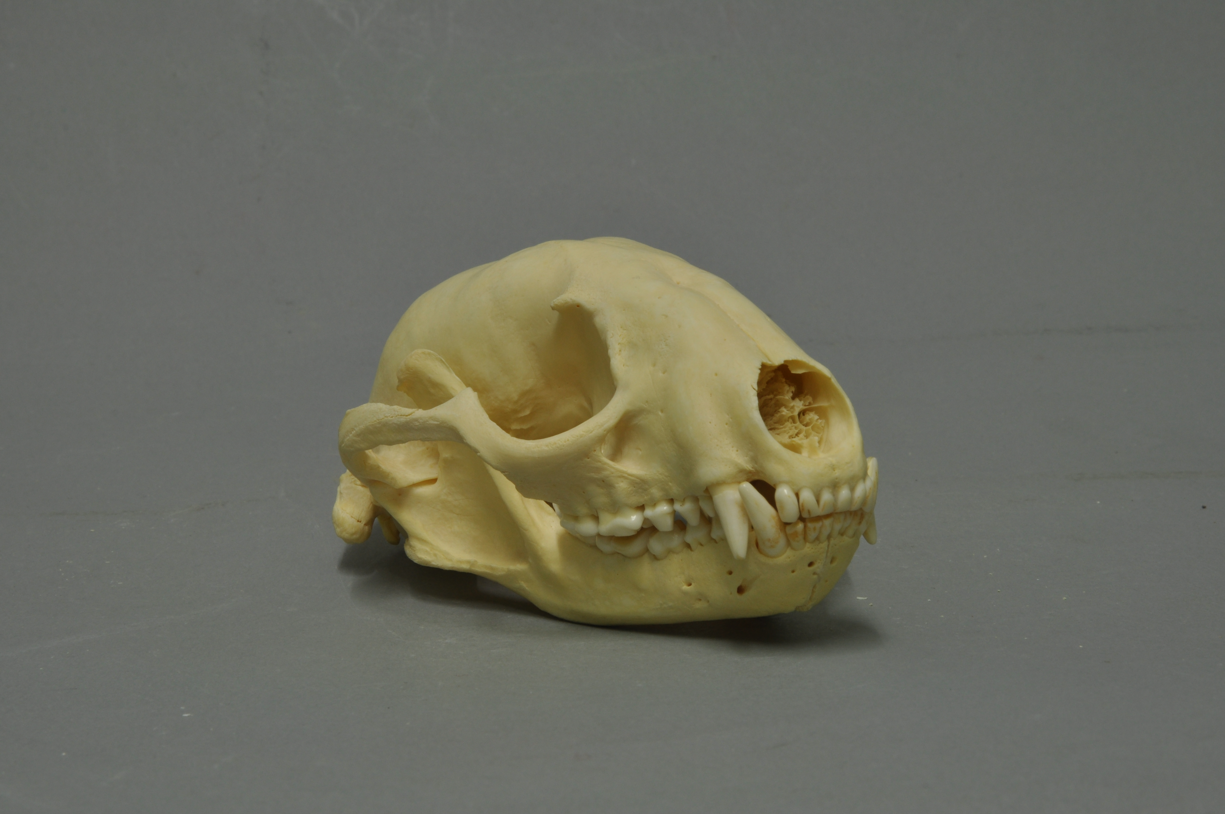 Crab-eating raccoon Procyon cancrivorus, skull, Coll. Museum Wiesbaden